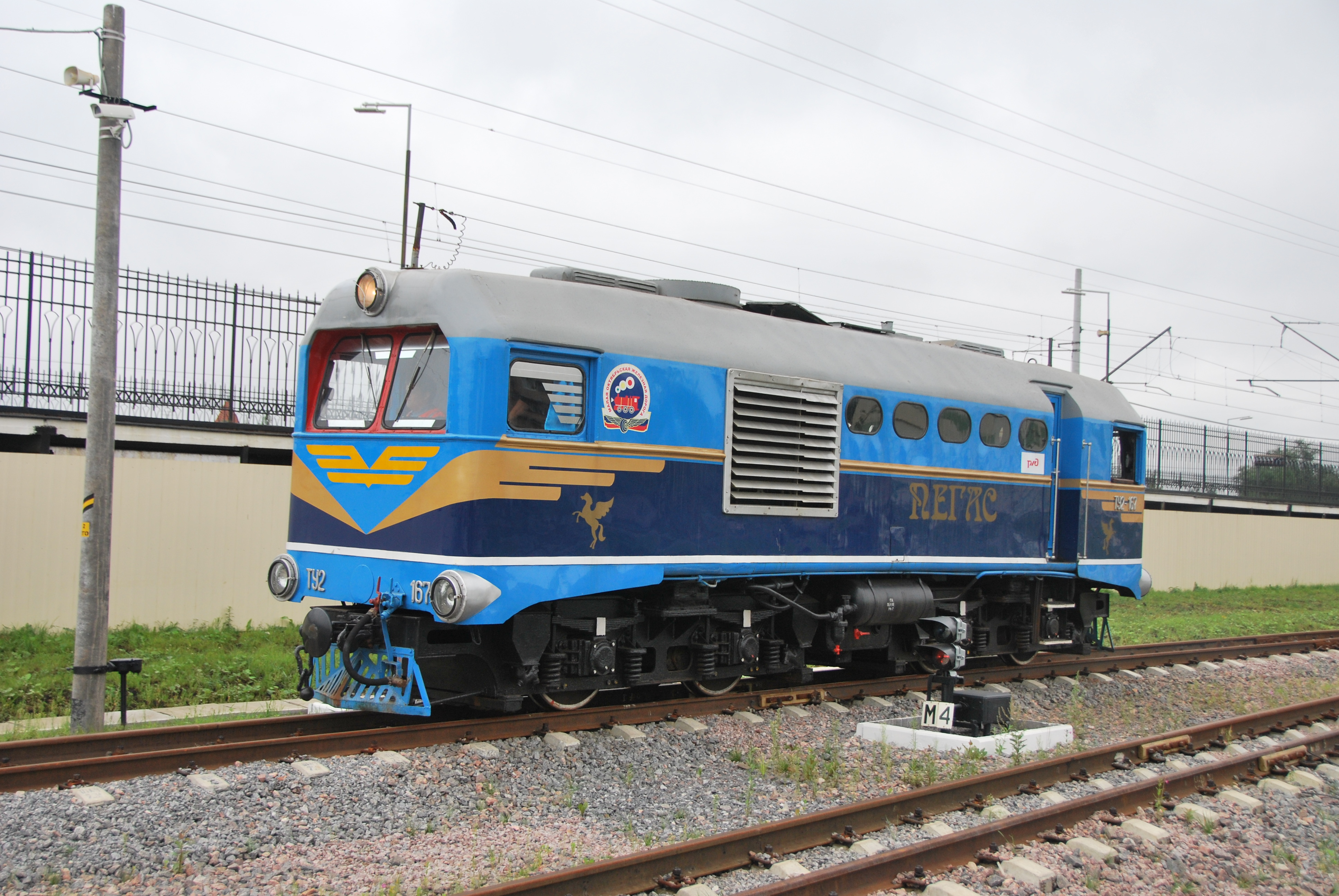 TU2-167 diesel locomotive at Tsarskosleskaya railway station